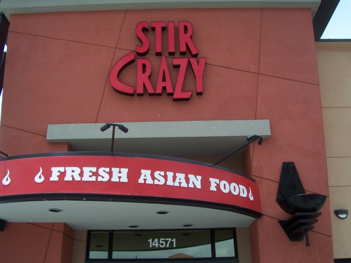 Picture i took of the Stir Crazy place in Florida.